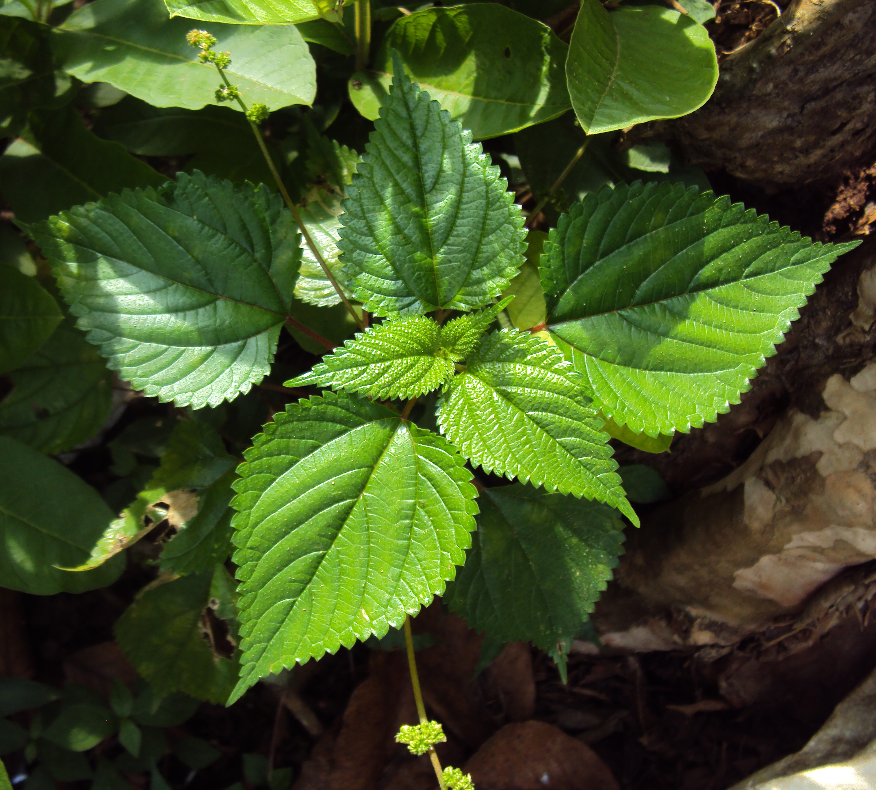 Urtica parviflora